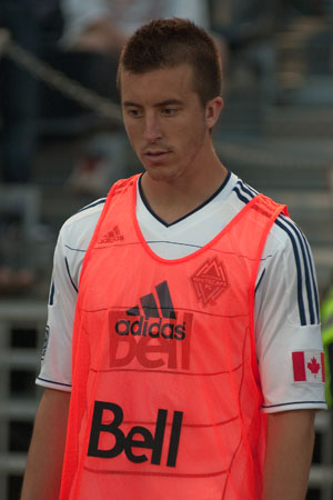 Picture of soccer player, Jeb Brovsky.